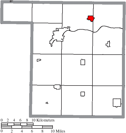 Map of the municipal and township boundaries of Henry County, Ohio, United States, as of the 2000 census, with the location of the village of Liberty Center highlighted. Township borders are shown only in unincorporated areas in order to differentiate incorporated and unincorporated areas more clearly.